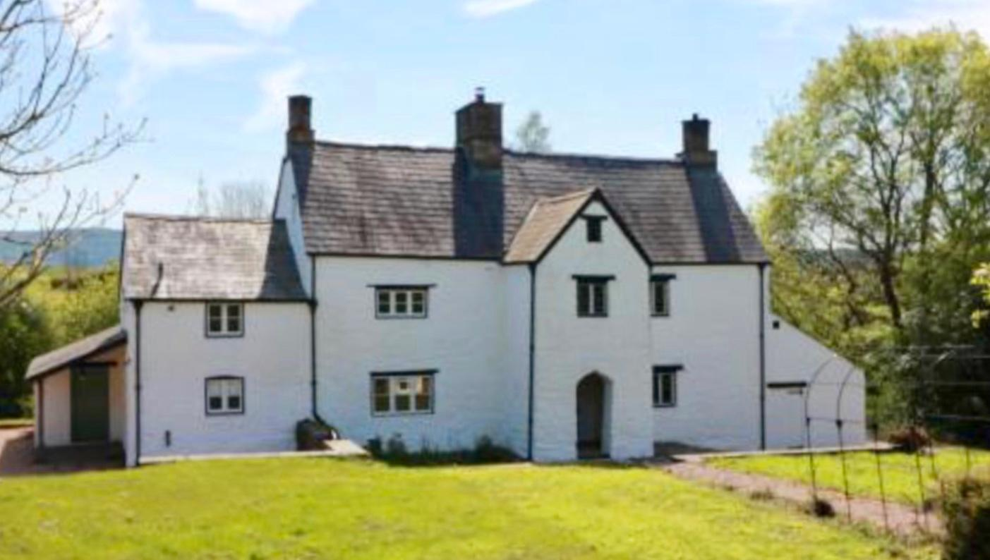 A Grade II* listed farmhouse in Monmouthshire. Whitewashed, of two storeys with attics and a double-pile porch